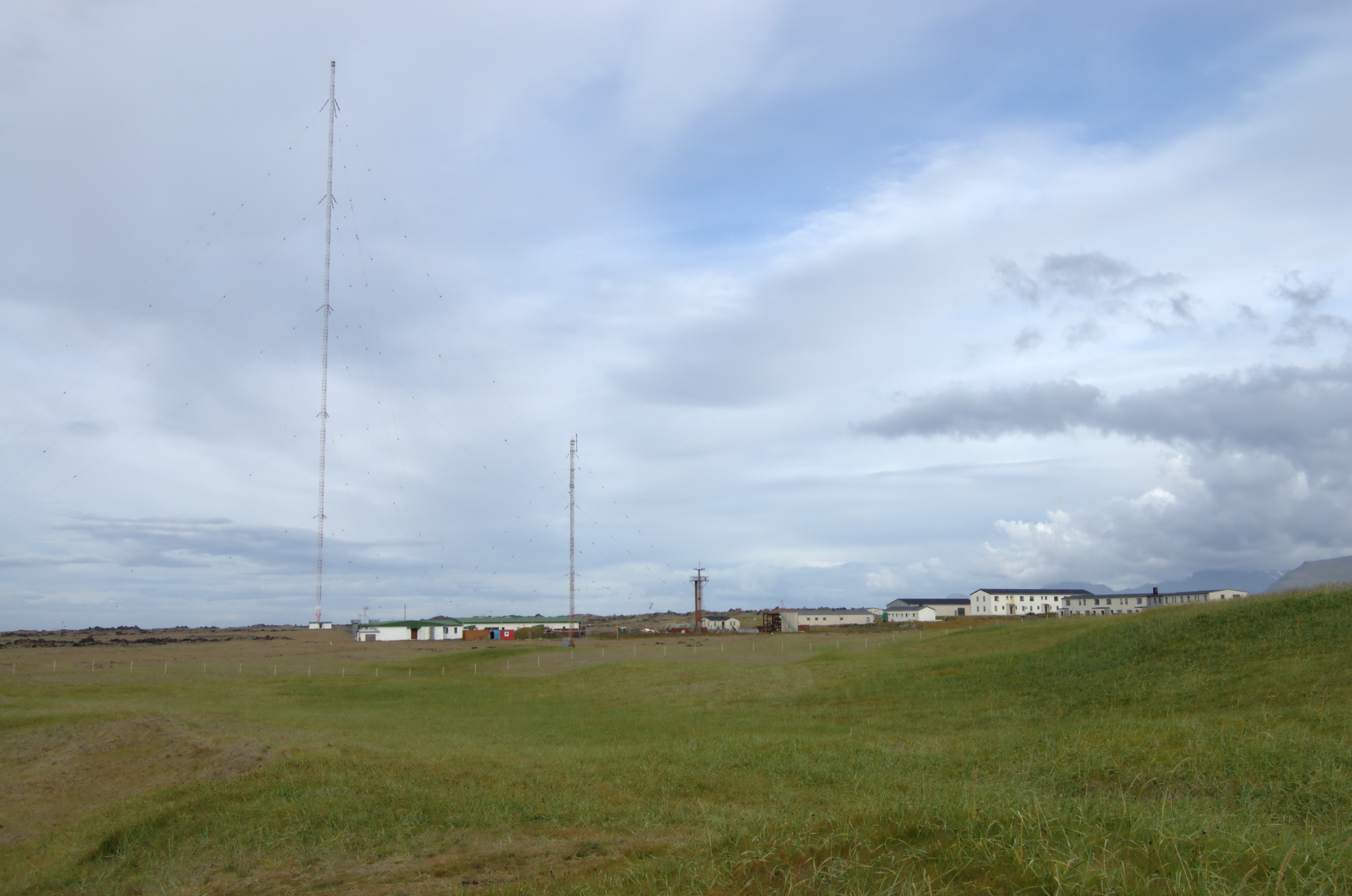 antenna Gufuskálar